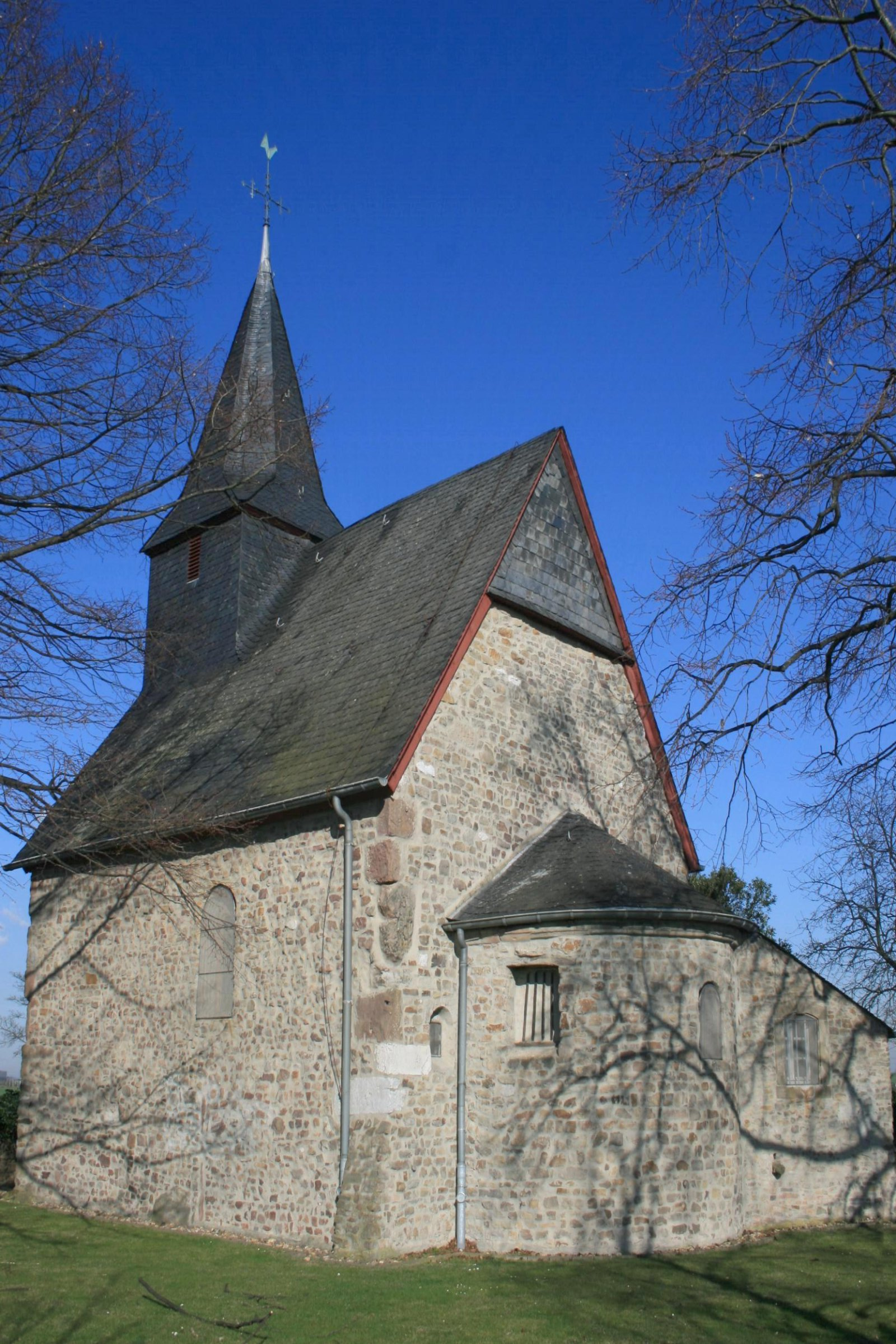 Cultural heritage monument No. 25 in Langerwehe